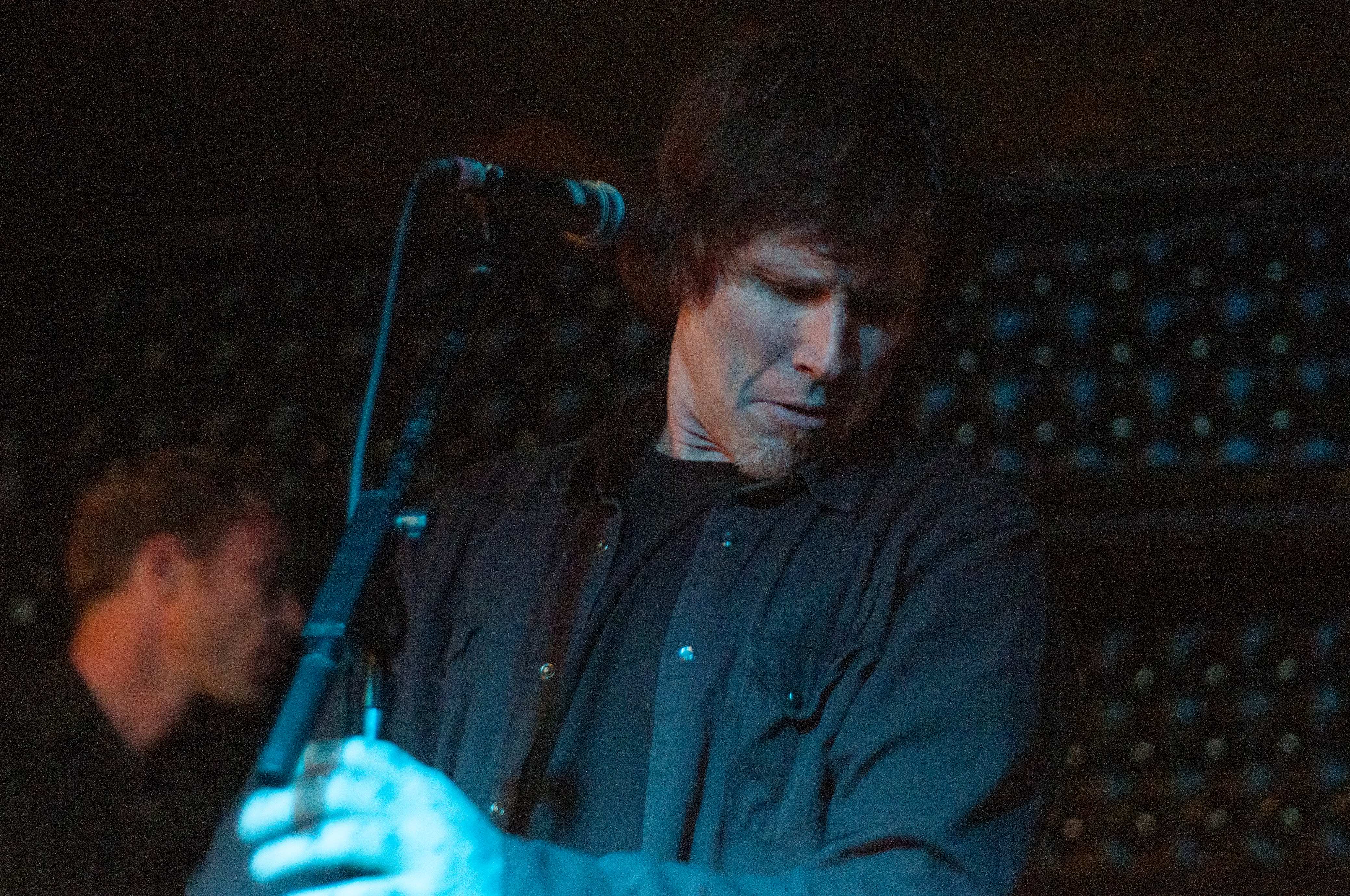 Mark Lanegan performing with Soulsavers in San Diego